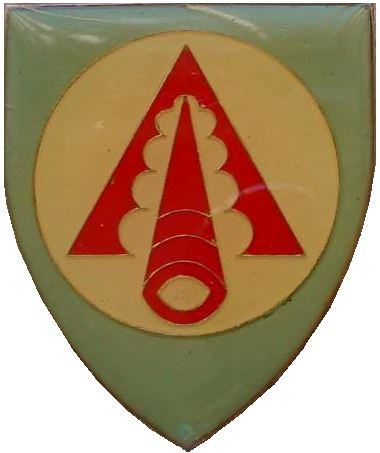 SADF Regiment Overvaal emblem